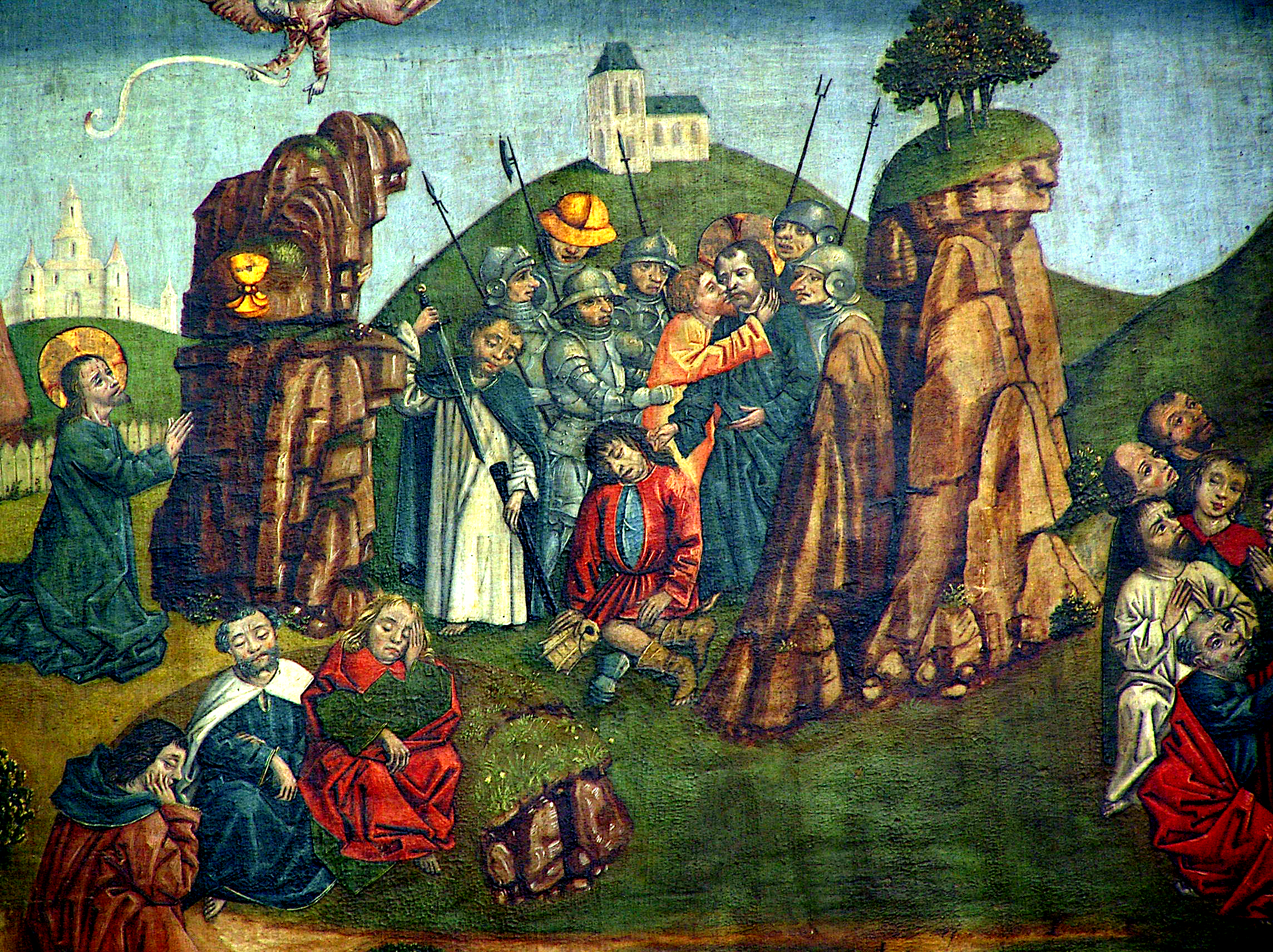 Toruń, church of St. James, Passion painting, dating from ca. 1480-90